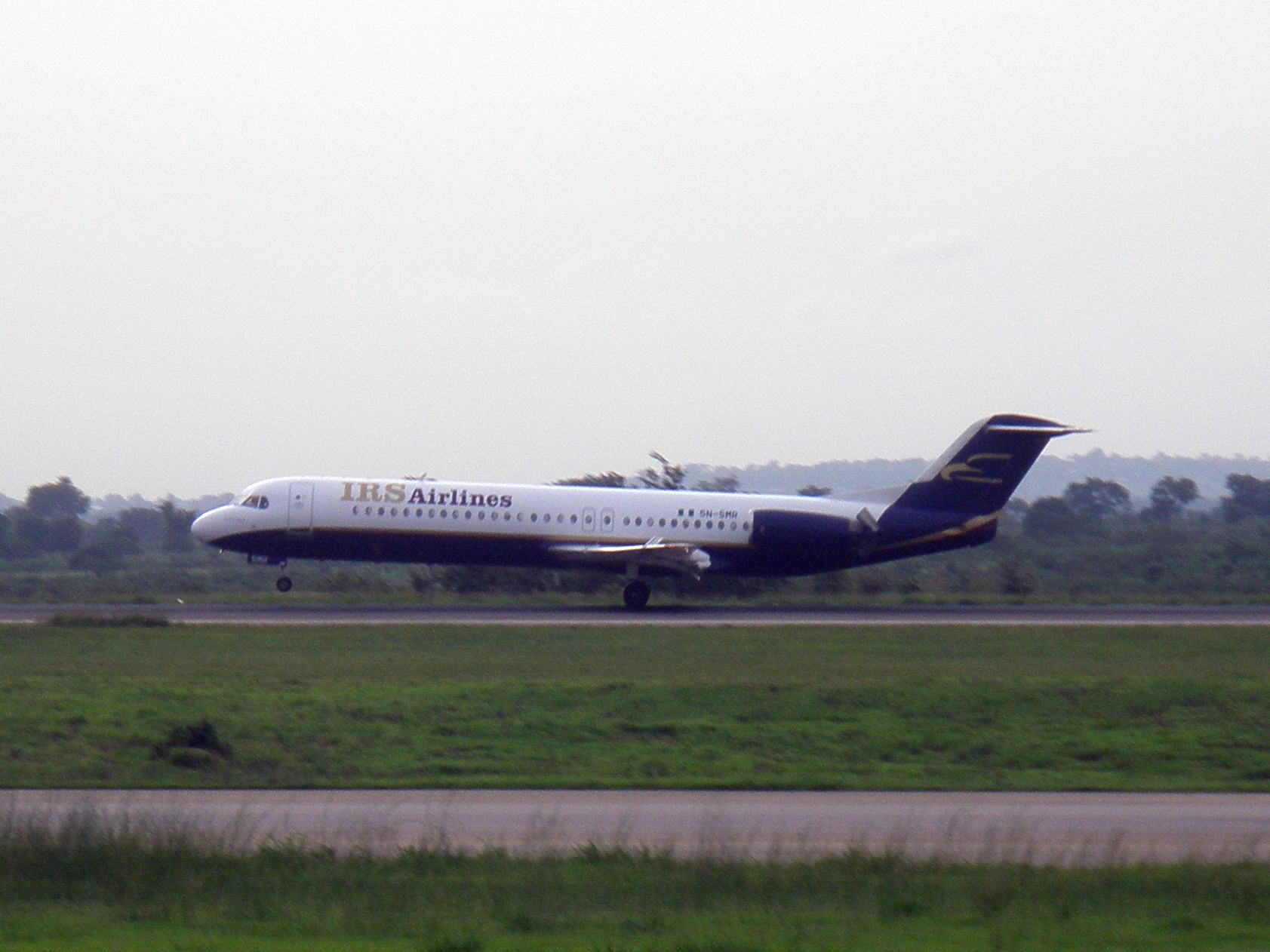 An IRS Airlines Fokker 100 registered 5N-SMR landing at Nnamdi Azikiwe International Airport, Abuja, Nigeria.